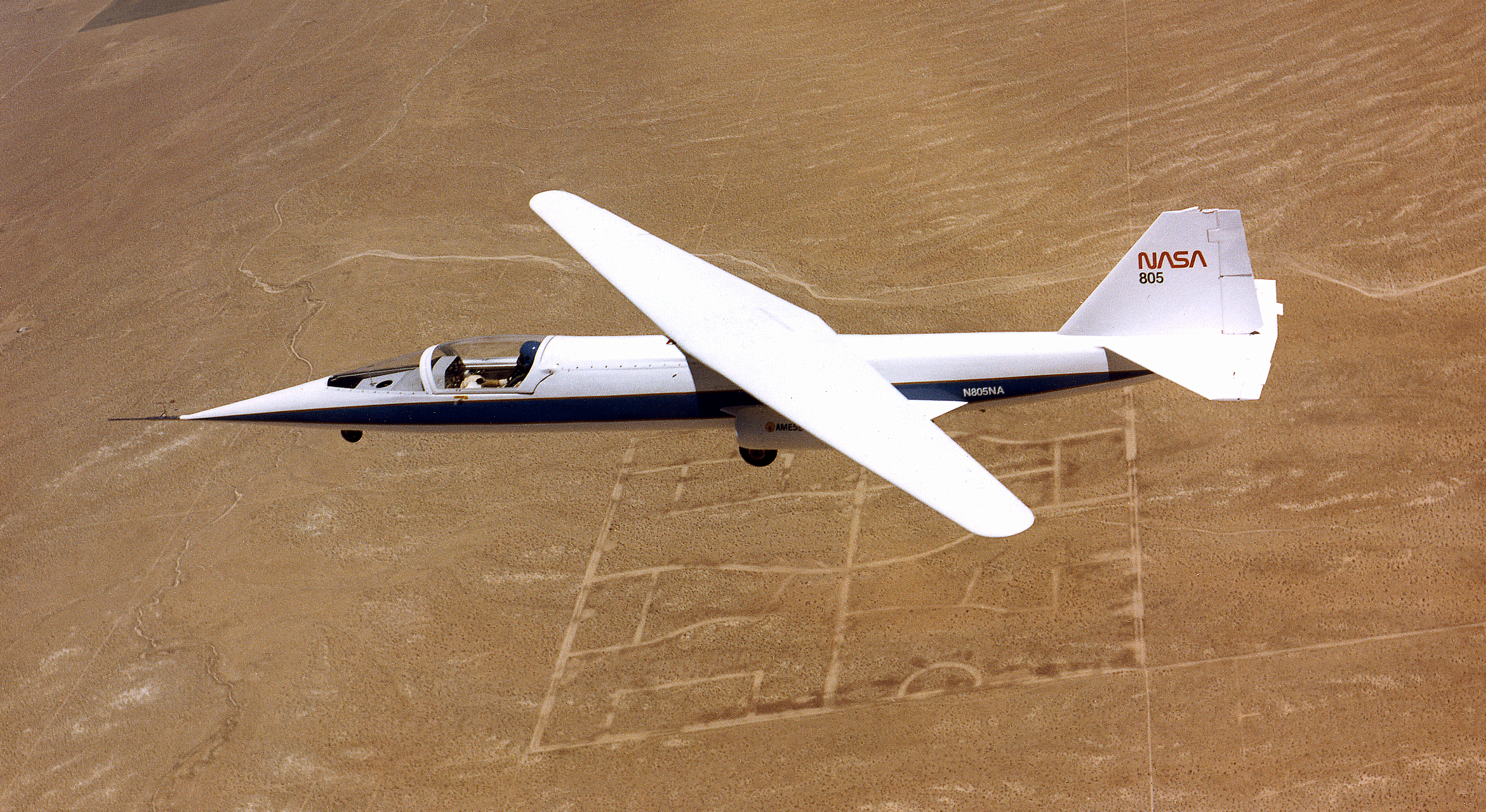 The AD-1 oblique wing research aircraft was photographed during a wing sweep test flight. The aircraft was flown 79 times during the research program conducted at NASA Dryden between 1979 and 1982.